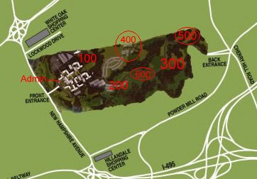 Author: Food and Drug Administration website U.S. Government documents are, by law, not subject to copyright